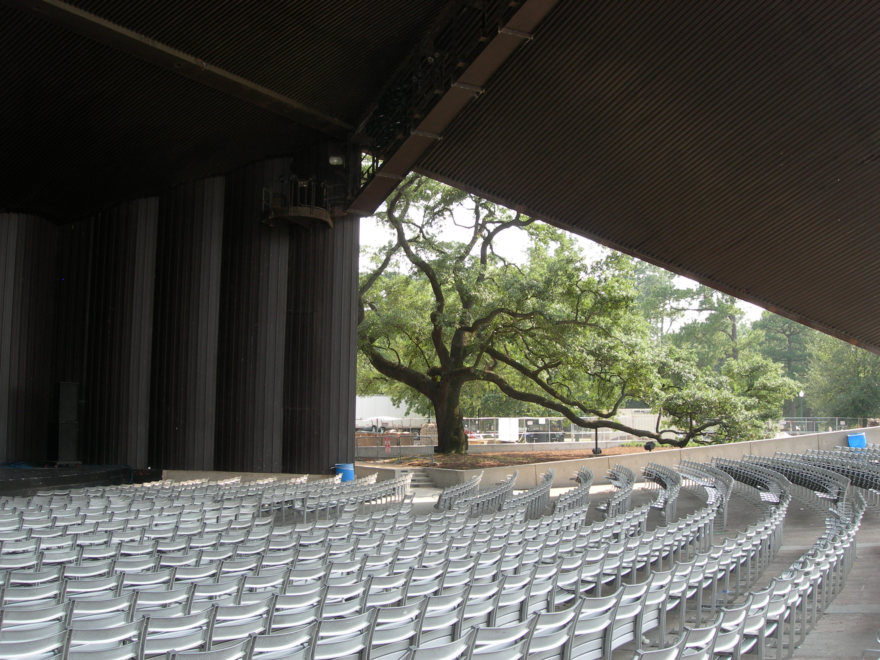 Miller Outdoor Theatre in Houston, Texas in May, 2008.